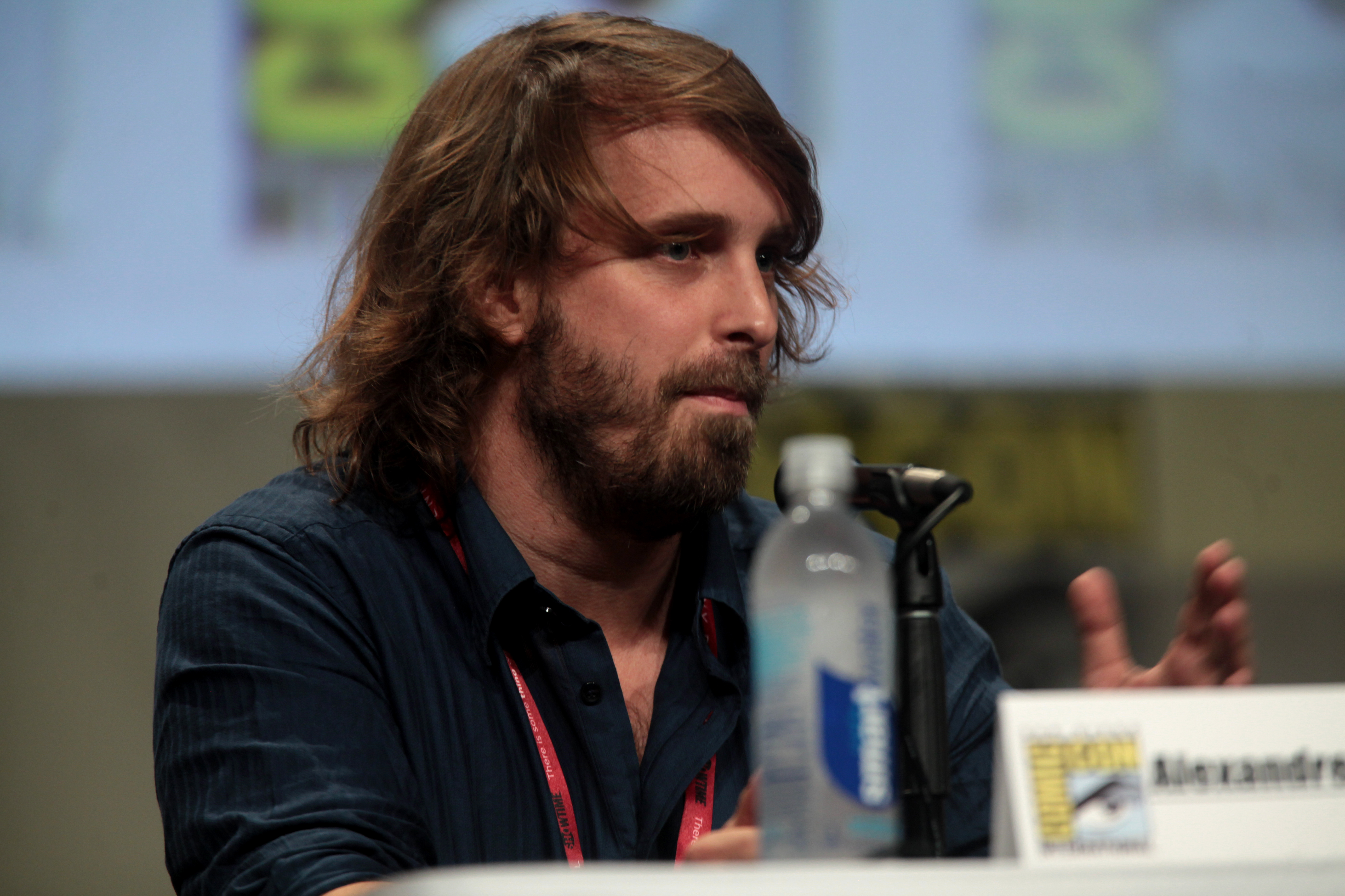 Alexandre Aja speaking at the 2014 San Diego Comic Con International, for "Horns", at the San Diego Convention Center in San Diego, California.